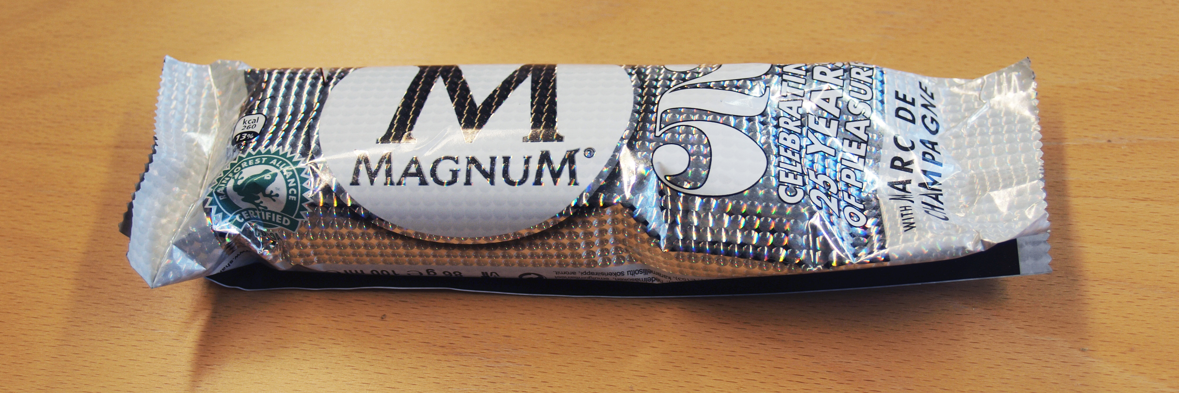 Magnum Marc de Champagne ice cream, a special 25th anniversary edition of Magnum ice cream: champagne-flavoured ice cream. The ice cream actually contains 0.5% alcohol, and this caused quite a controversy in Finland. Finnish food stores are paranoid about selling anything containing even the most infinitesimal amount of alcohol to minors, and this caused food stores to refuse to sell this ice cream to people under 18 years of age, even though you have to eat way more than 50 of these to get to the same intoxication level as from one pint of beer.